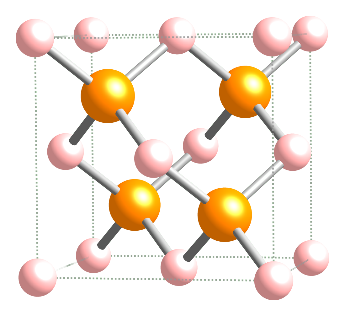 Ball-and-stick model of the unit cell of boron phosphide, BP, which adopts the sphalerite (zinc blende, β-ZnS) structure. X-ray crystallographic data from R. W. G. Wyckoff (1963) Crystal Structures 1 (2nd ed.), New York City: Interscience, pp. 85-237 CIF acquired from The American Mineralogist Crystal Structure Database Model constructed and image generated with CrystalMaker 8.1.